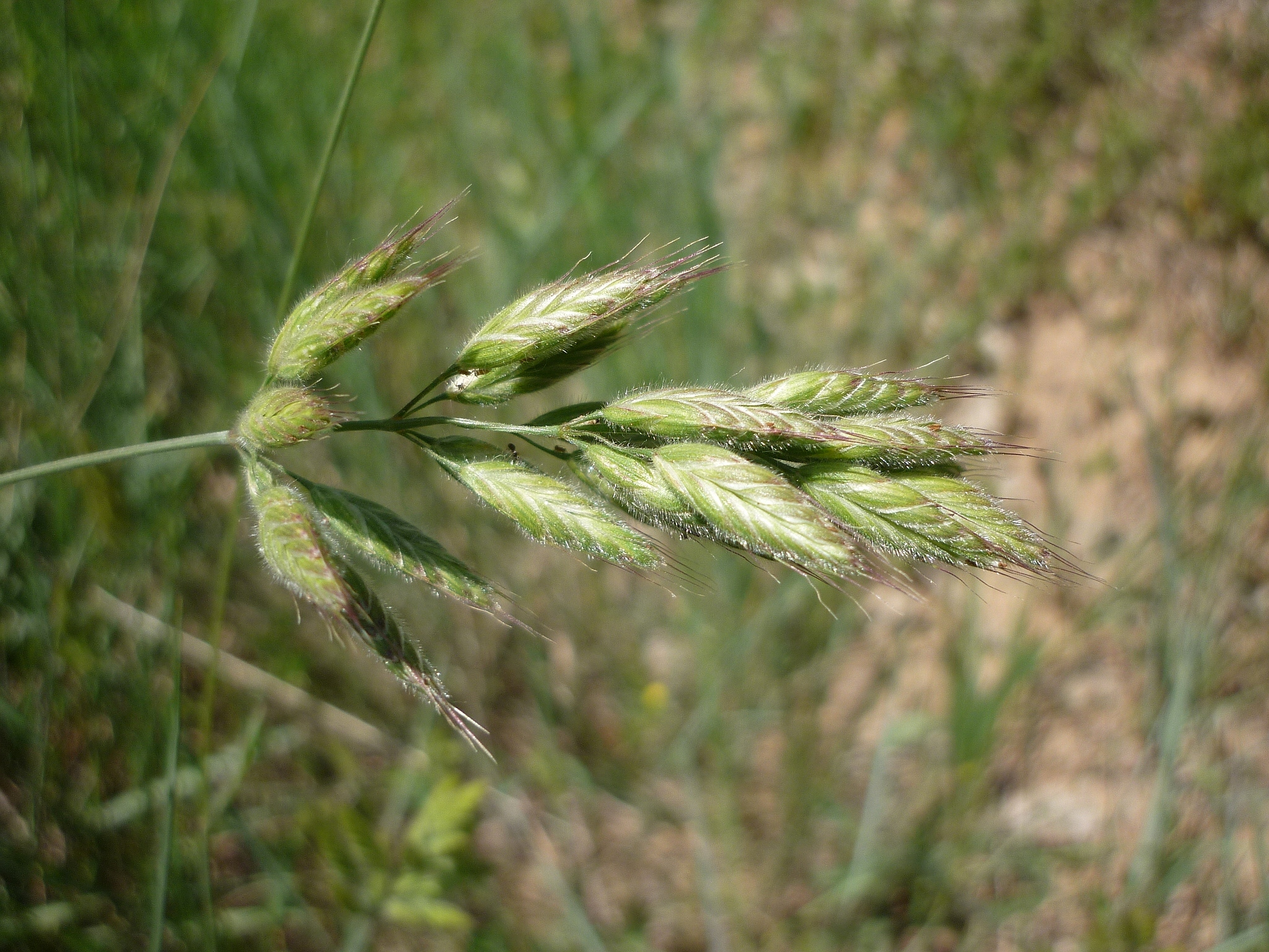 Bromus hordeaceus. In Torà (Segarra- Catalunya). On 570 m. altitude